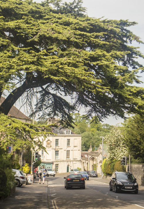 Thomas Bunn's only surviving cypress of 1811 in Bath Street, Frome